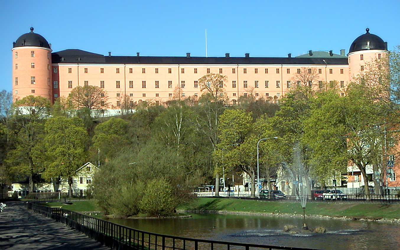 Uppsala slott, castle in Uppsala, Sweden.